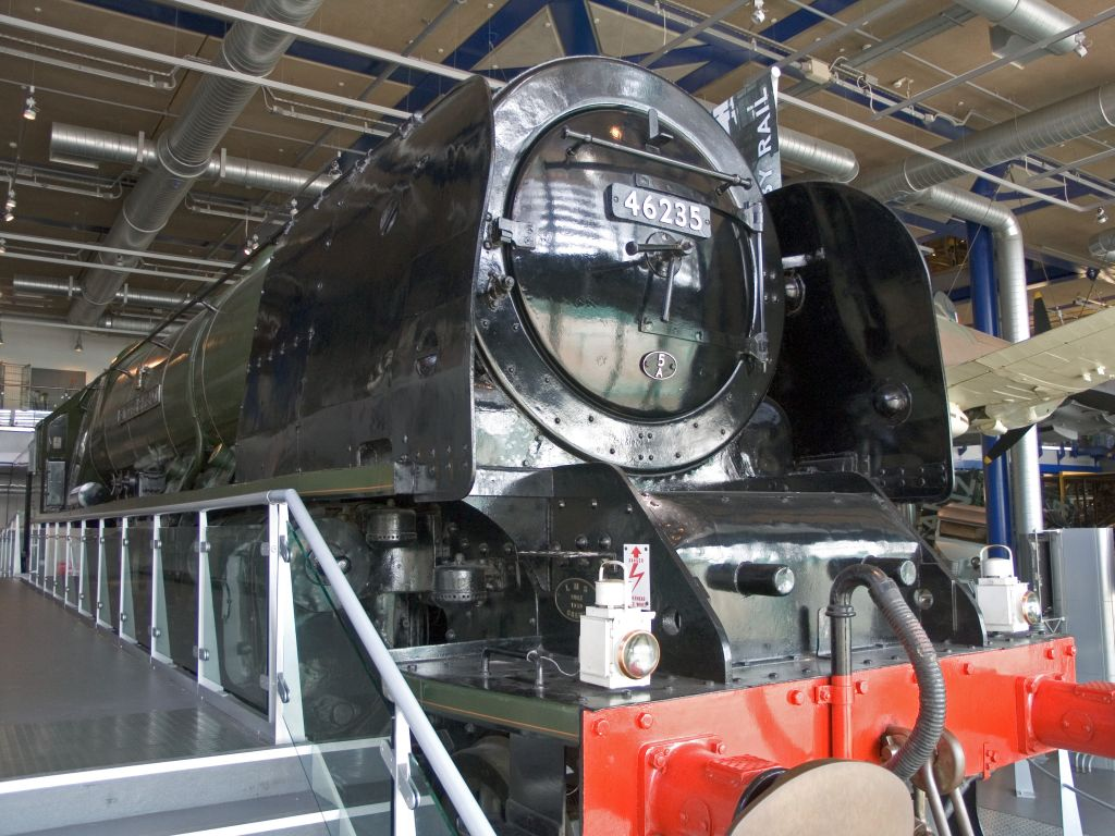 Editing Undertaken: Shadows/Highlights, Auto Levels, Unsharp Mask